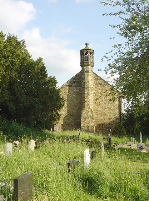 Bell turret of St Luke's parish church, Heage, Derbyshire, seen from the north